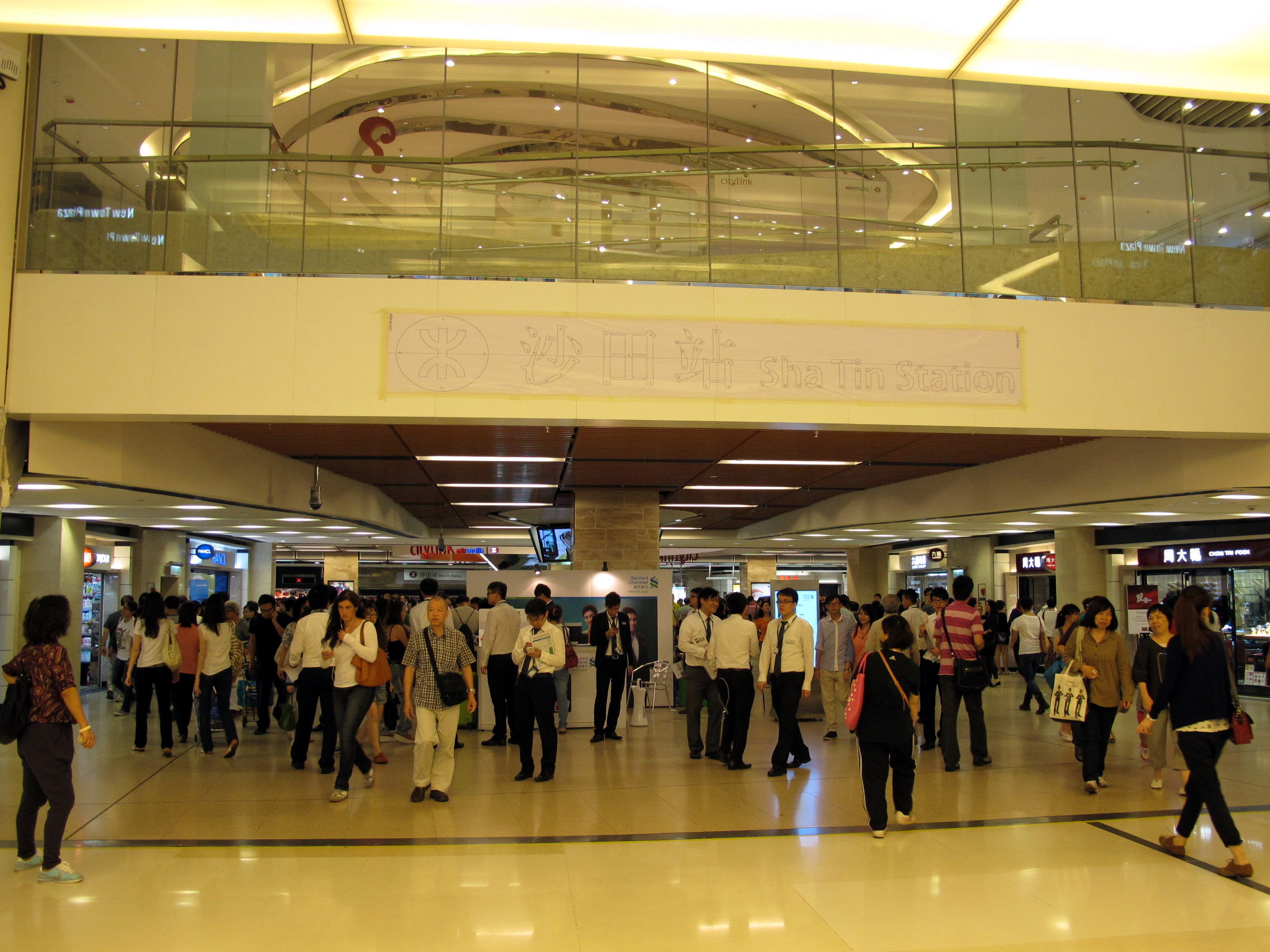 Sha Tin Station Concourse